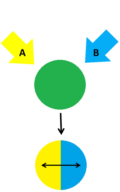 Phase separation method of producing Janus nanoparticles